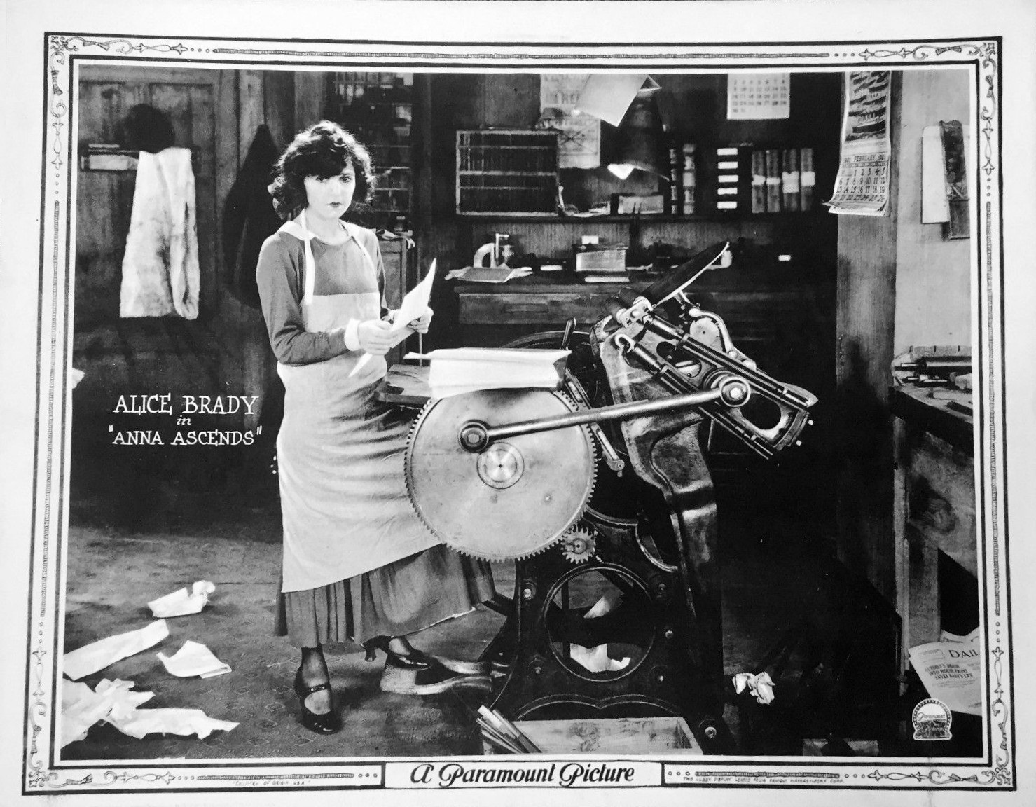 Lobby card for the American romantic drama film Anna Ascends (1922).